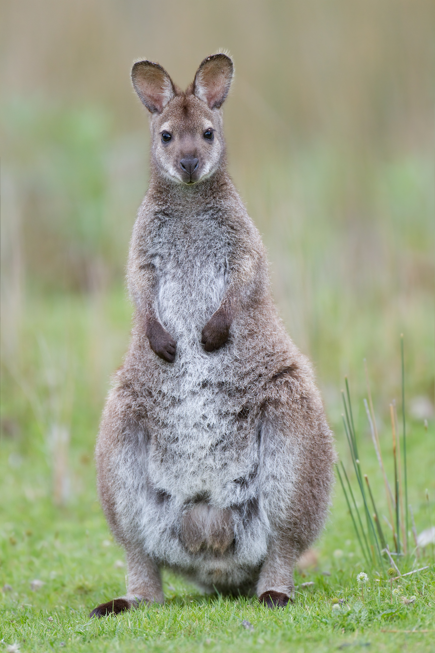 Bennett's Wallaby (Macropus rufogriseus rufogriseus), Bruny Island, Tasmania, Australia.